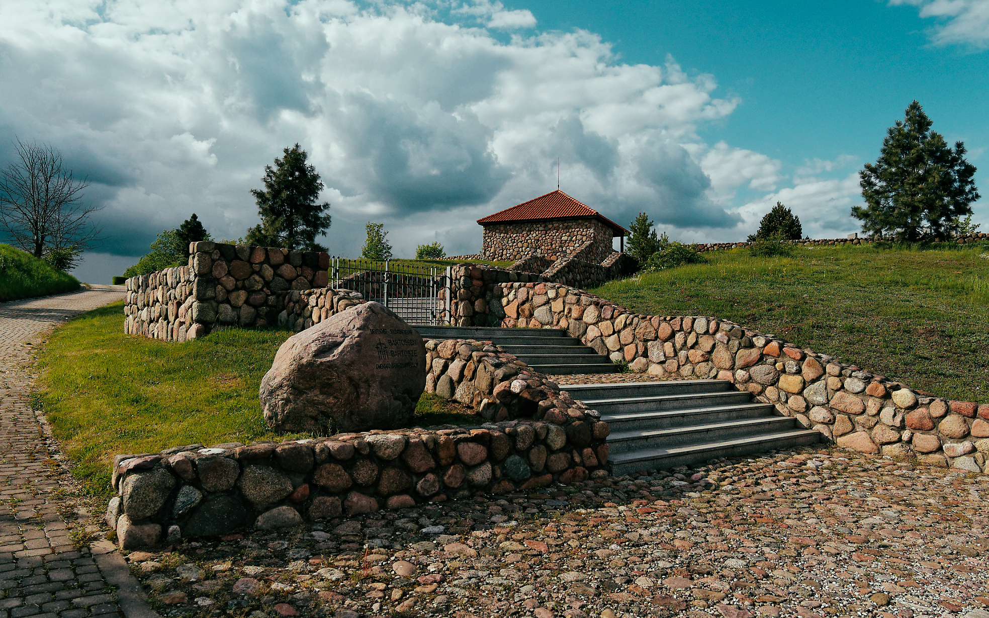 Bartosze close Ełk - the German soldiers cemetery killed during The First and The Second World War - May 2016